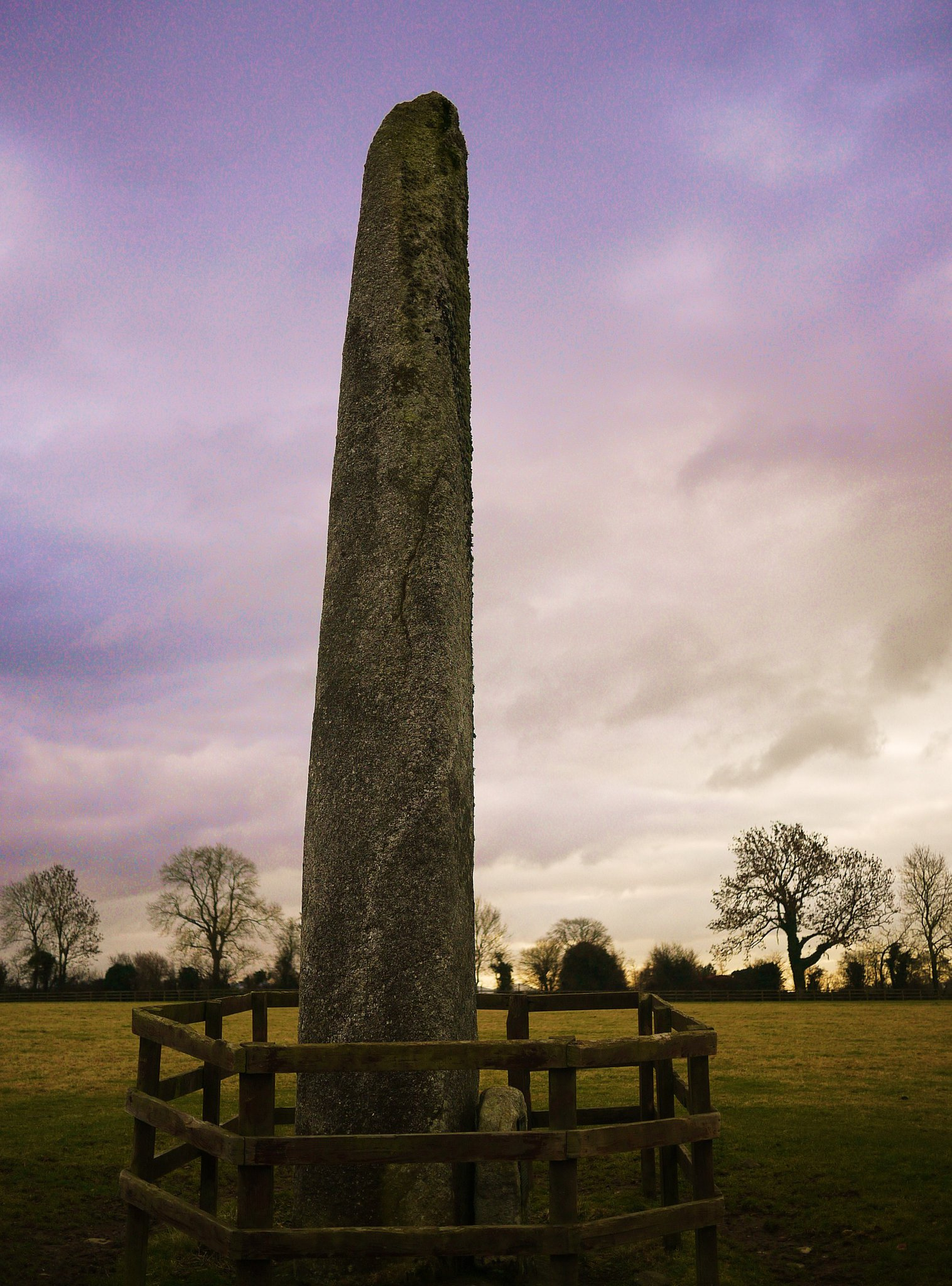 Punchestown Great Standing Stone